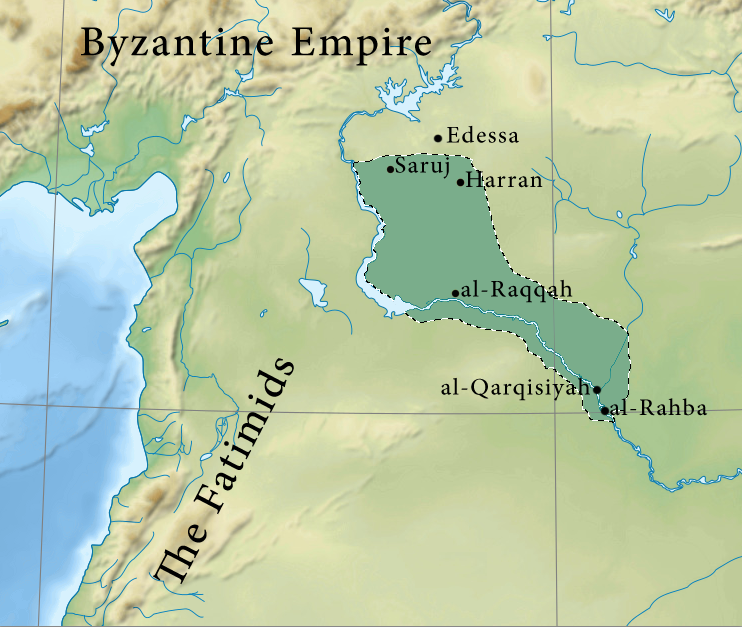 The Numayrid dynasty at its height. By 1061, the Numayrids controlled the western parts of Upper Mesopotamia, including the cities of Harran, Raqqa, Saruj, al-Qarqisiyah (Circesium) and al-Rahba. Their leading prince, Mani' ruled from the city of Harran, but the tribe generally controlled events in the cities through their agents, while they resided in the pastures.